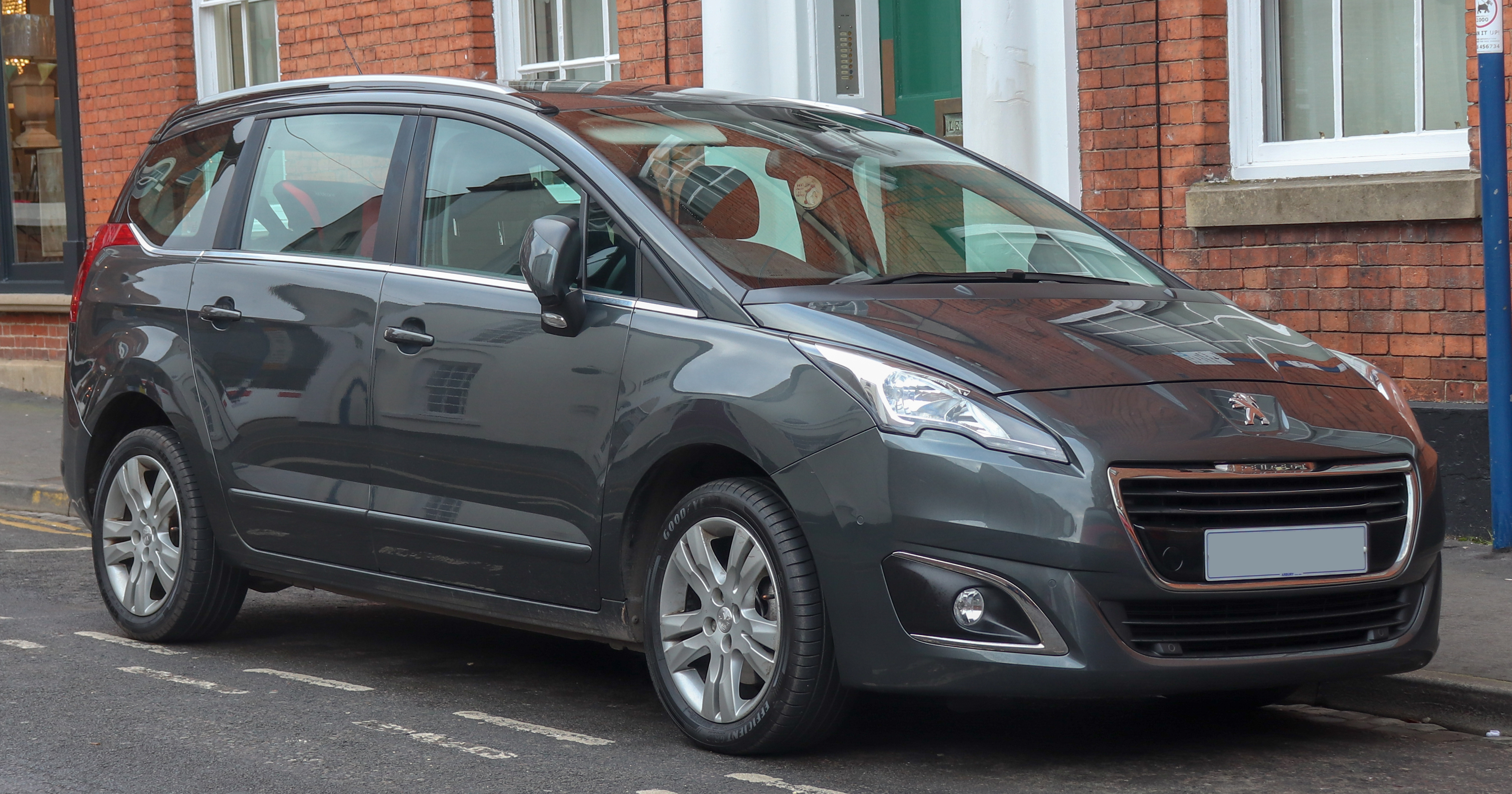 2015 Peugeot 5008 Active Blue HDi 1.6 Front Taken in Warwick